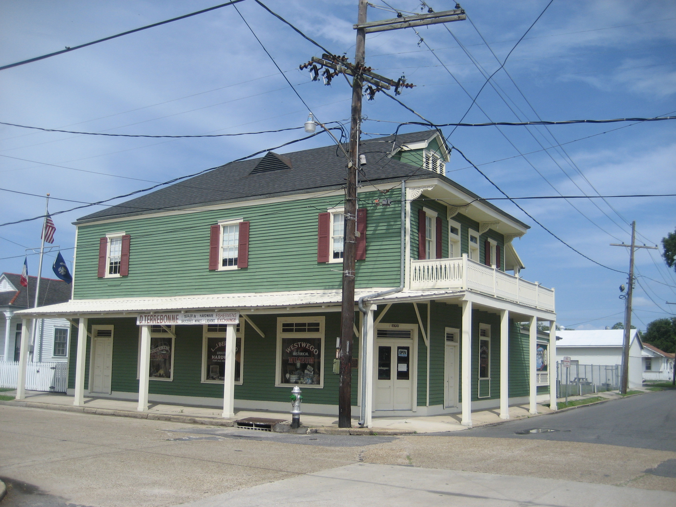 Westwego, Louisiana, city museum.